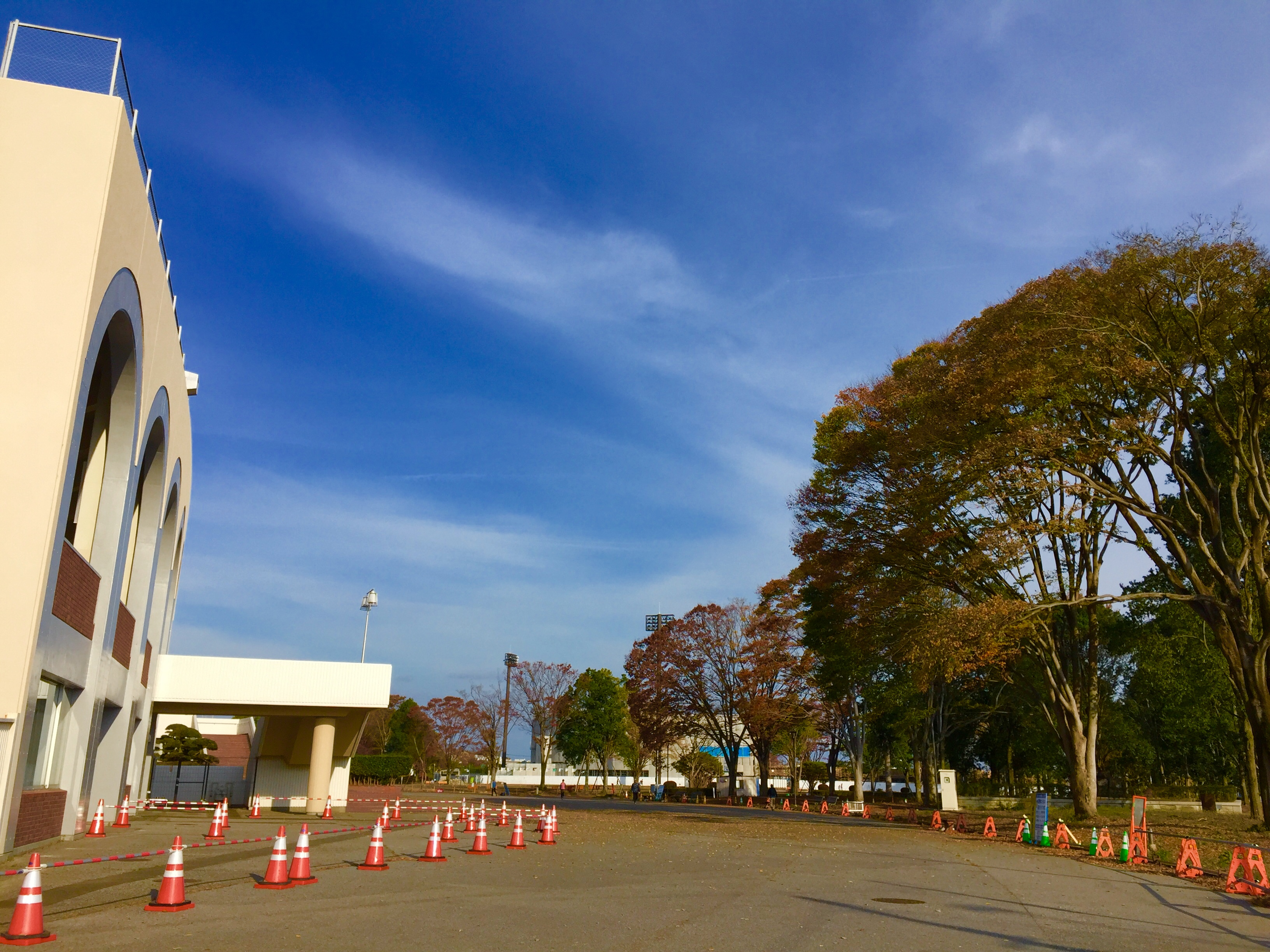 Tochigi Prefecture General Sports Park located in Utsunomiya City.